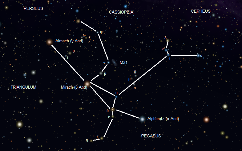 A photo of the constellation Andromeda with all Bayer-designated stars marked and the IAU figure drawn in.